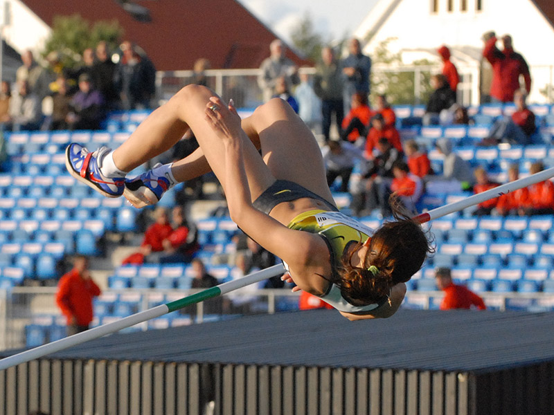 A high jump being performed by Yelena Slesarenko at Stavanger Games 2007.